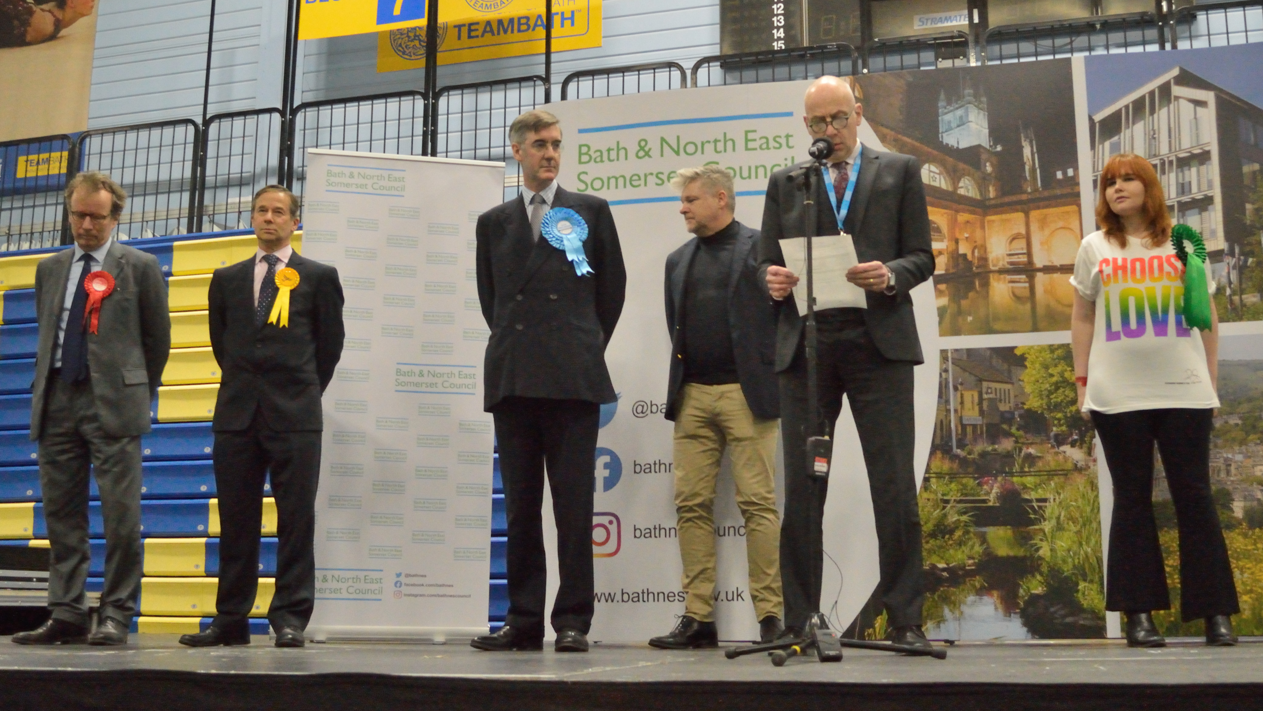 The 2019 United Kingdom general election, North East Somerset constituency, declaration of results after the count held in the University of Bath Sports Training Village hall. The candidates left to right are: Mark Huband (Labour), Nick Coates (Liberal Democrats), Jacob Rees-Mogg (Conservative), Shaun Hughes (Independent), Fay Whitfield (Green).